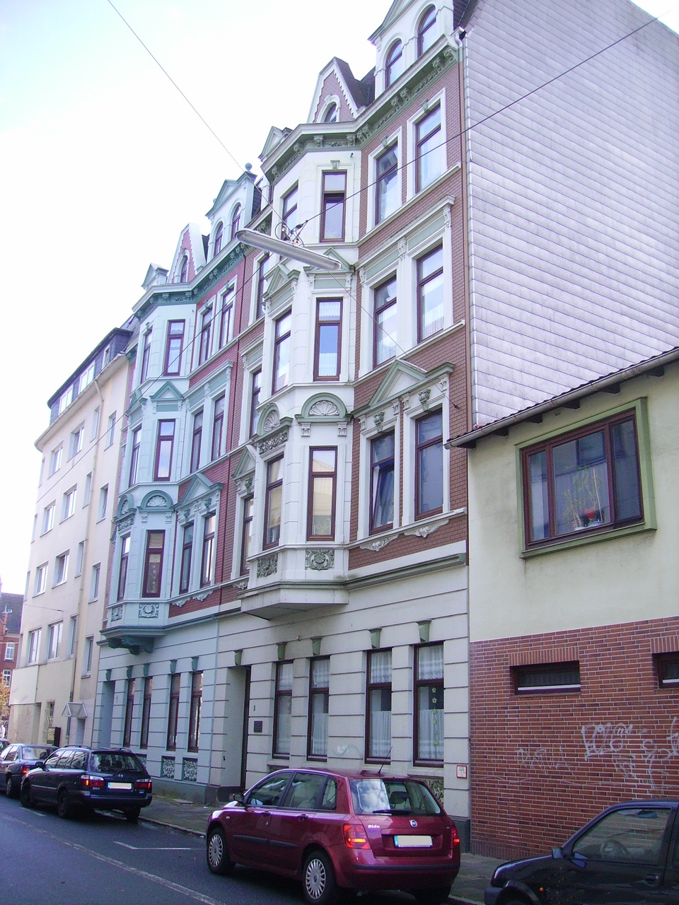 Birthplace of the German singer Lale Andersen (1905-1972) in Bremerhaven, Lutherstraße 3